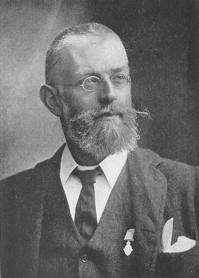 A photograph of Theodore Leighton Pennell